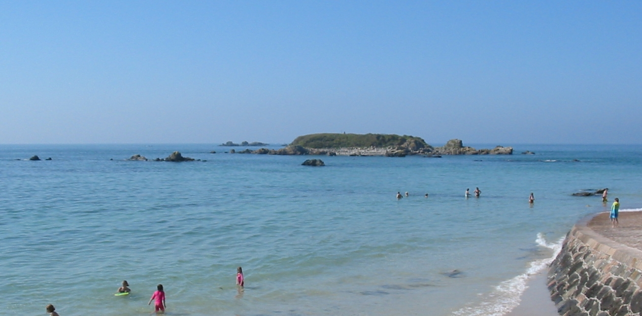 La Motte/Green Island, a tidal island in St Clement, Jersey Nouormand: La Motte, Saint Cliément, Jèrri